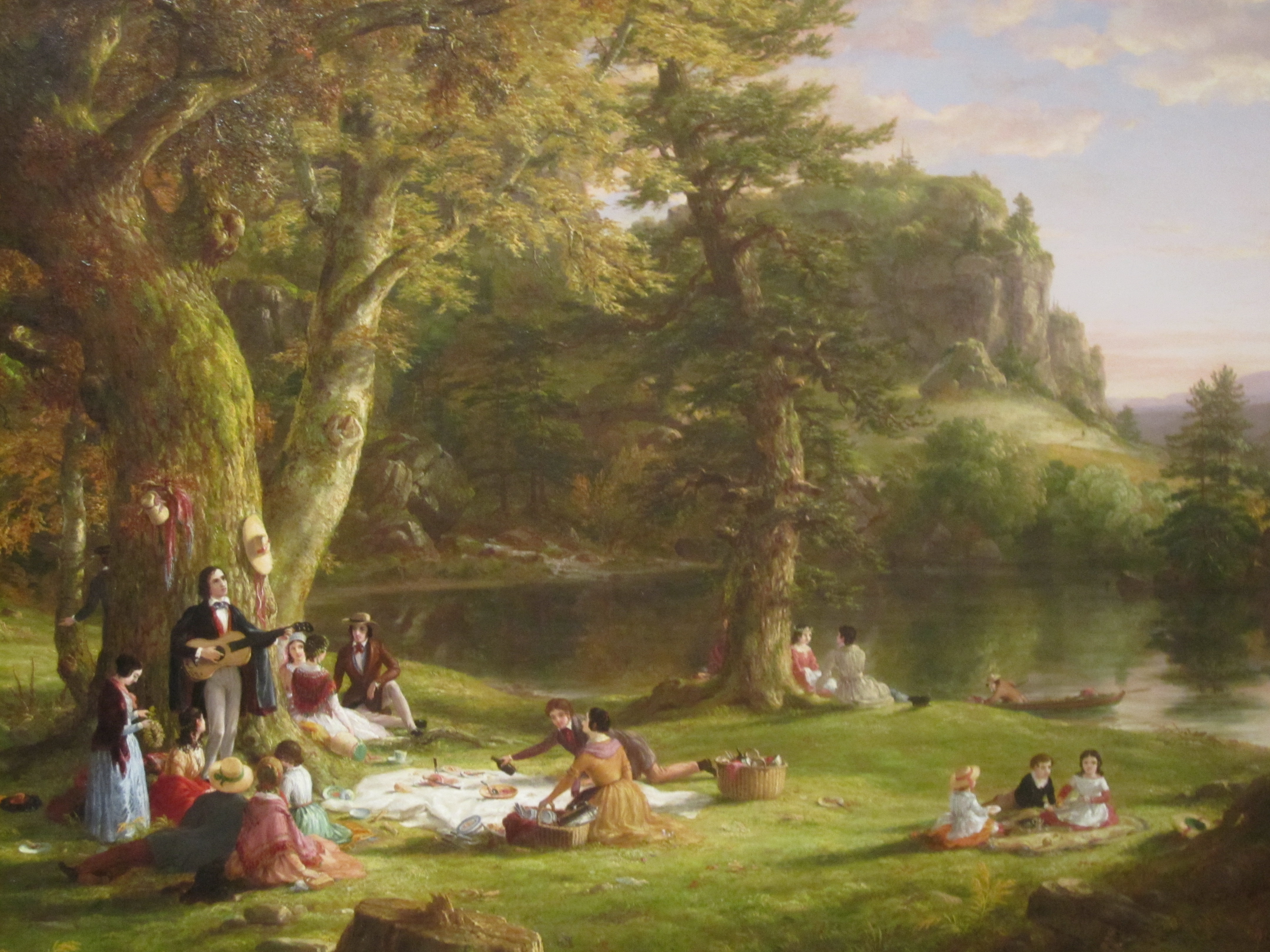 "The Picnic"